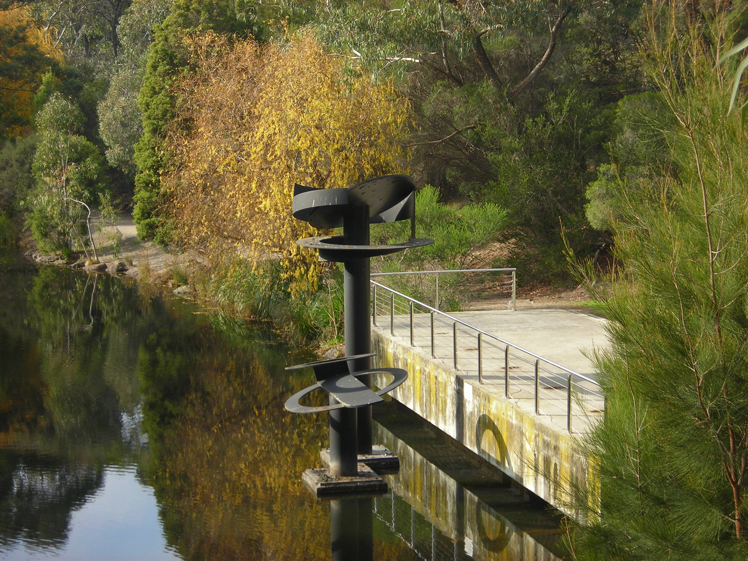 Sculpture Dialogue of Circles (1976) by Inge King at La Trobe University Sculpture Park in Melbourne/Australia